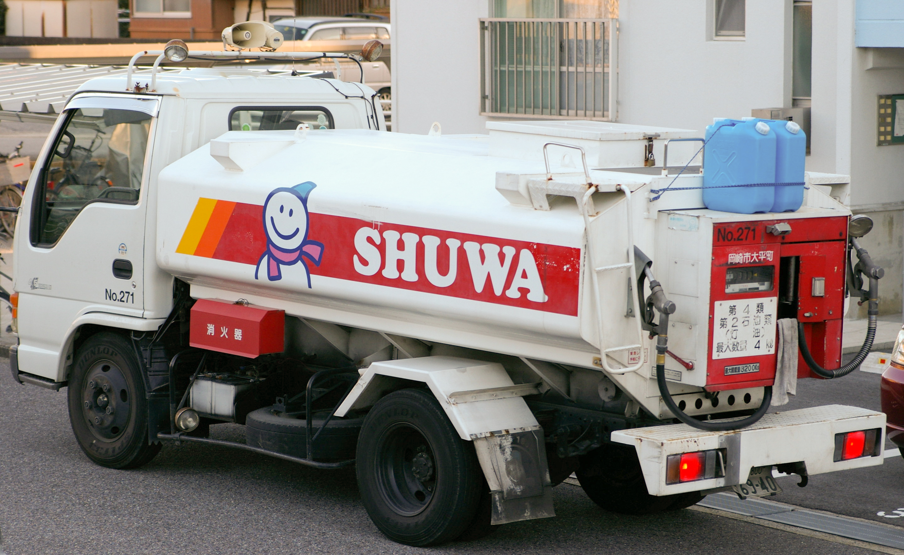 A kerosene delivery truck, as seen in Aichi, Japan. They play songs constantly on the visible speakers while delivering fuel.